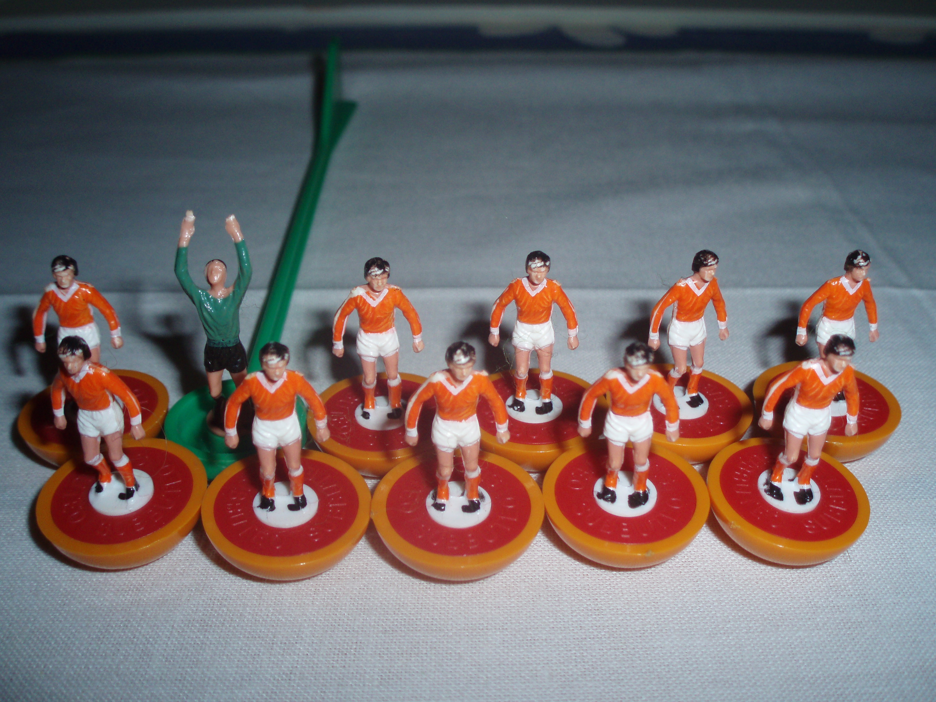 Holland national football team subbuteo